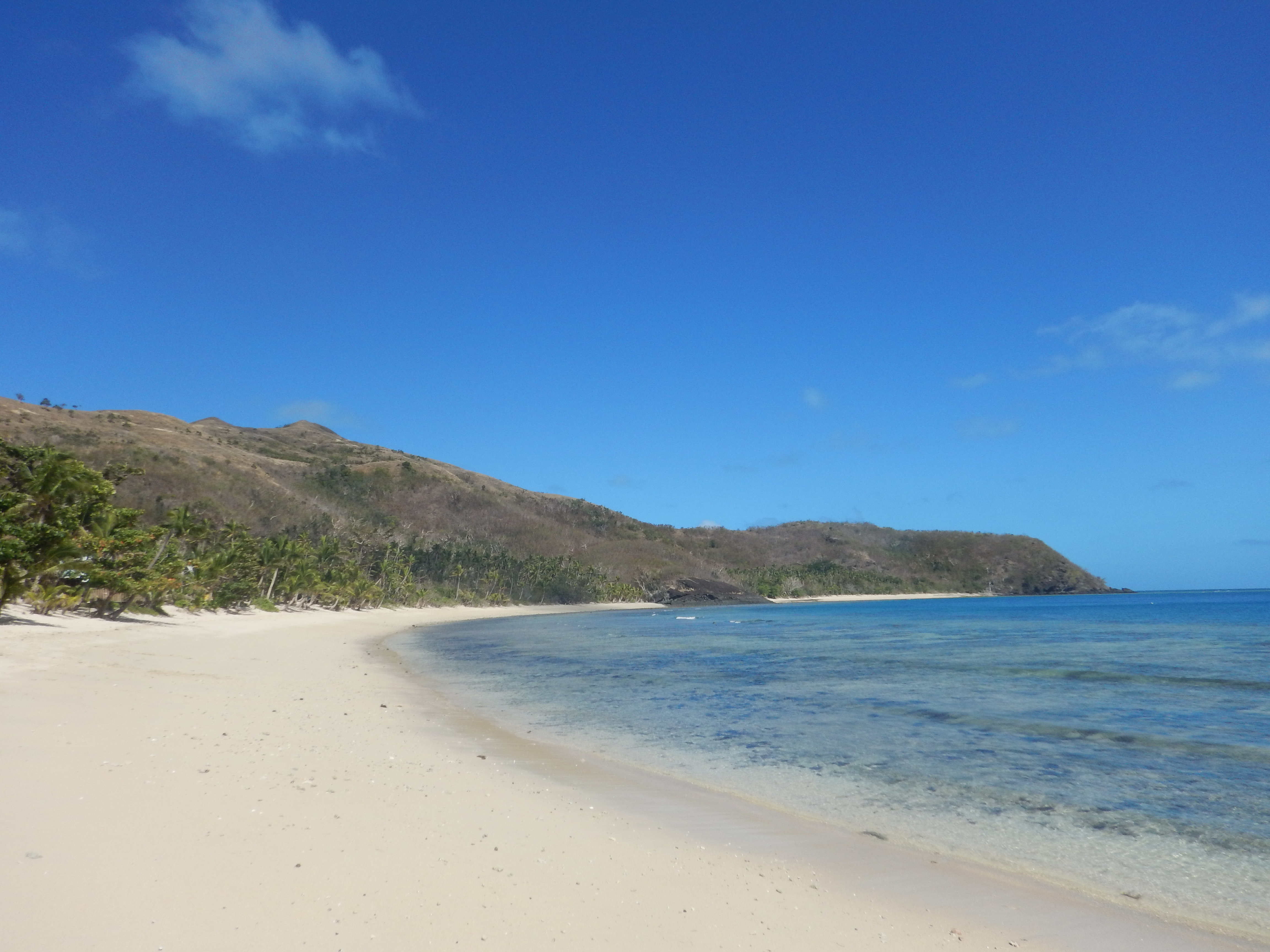 Beach on Naviti island, Yasawa Islands, Fiji. August 2016.